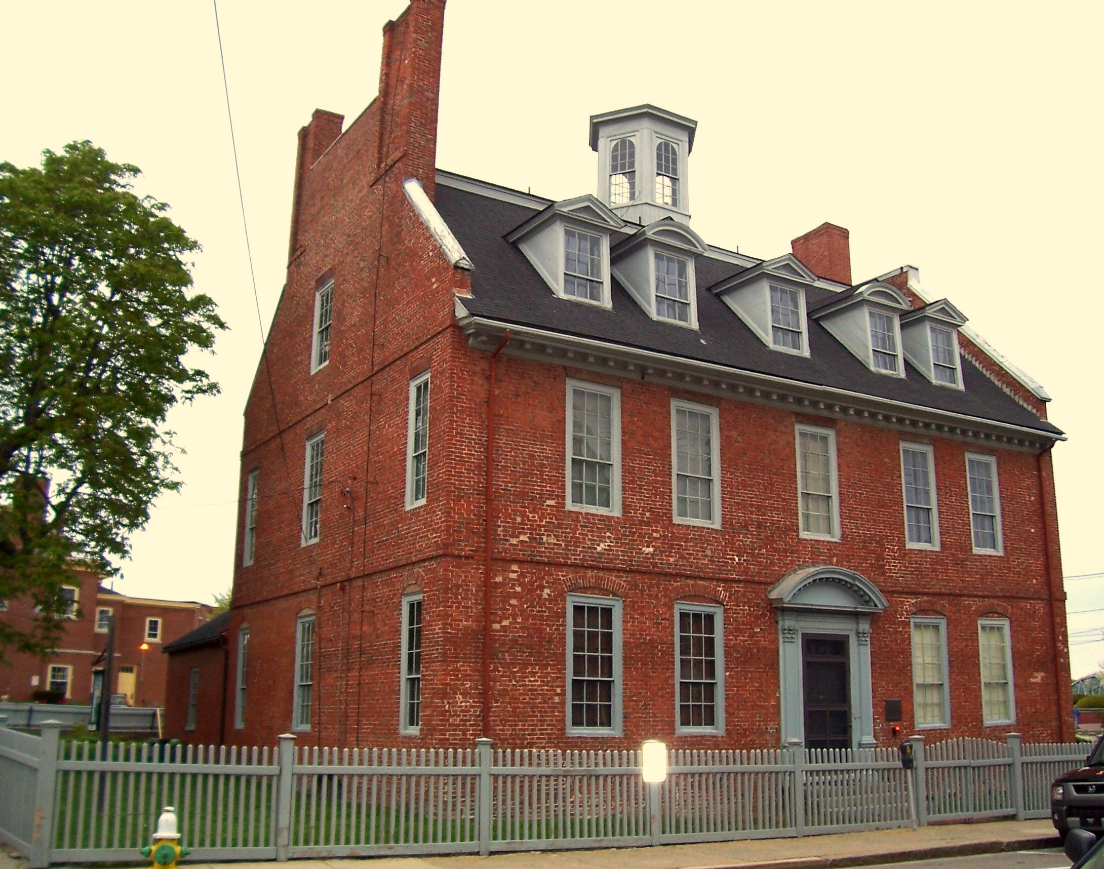 The Warner House is the only surviving mansion of many that once lined Daniel Street. Built in 1716-18, it is the region's finest urban brick residence of this era. Inside, the earliest-known painted murals in the United States line the hall staircase. Occupied by generations of the same family for 200 years, the mansion contains an outstanding collection of early portraits and Portsmouth furniture. The building is owned and operated by the Warner House Association.